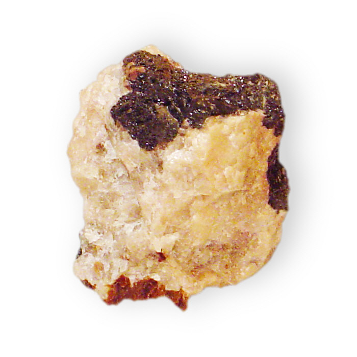 These mineral images are free to use how you wish.